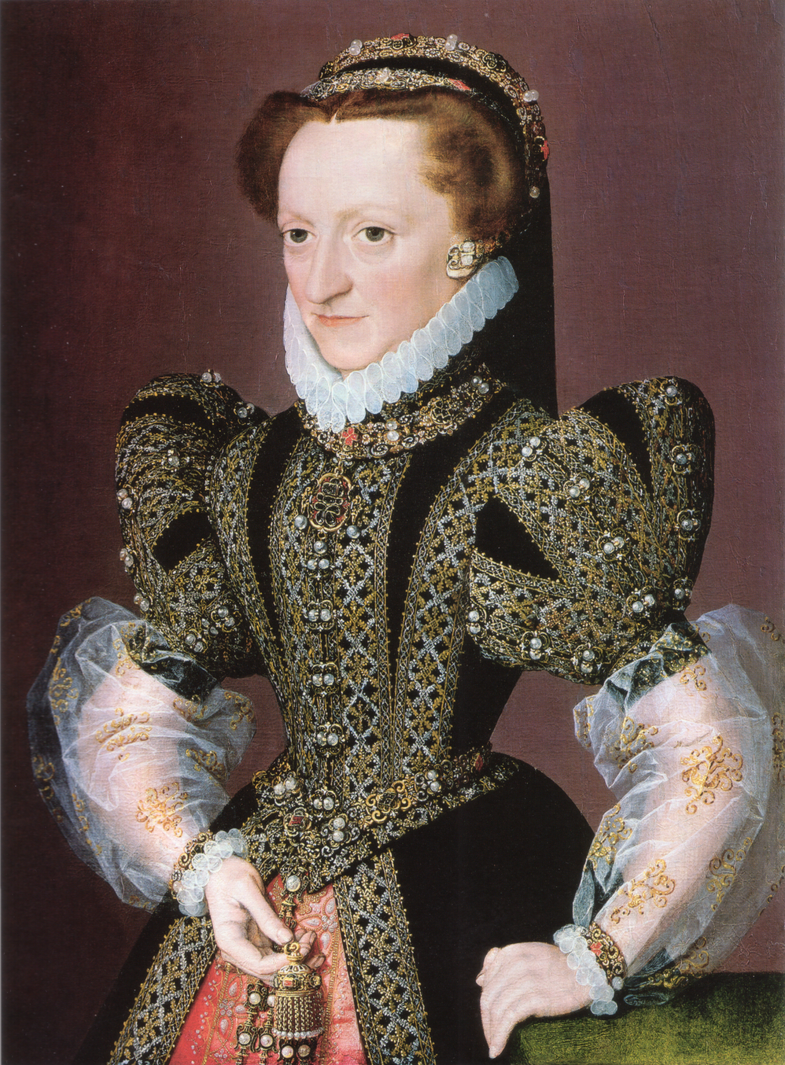 Portrait of a Lady (formerly incorrectly identified as Christina of Denmark, Dowager-Duchess of Milan and Lorraine [1521–1590])